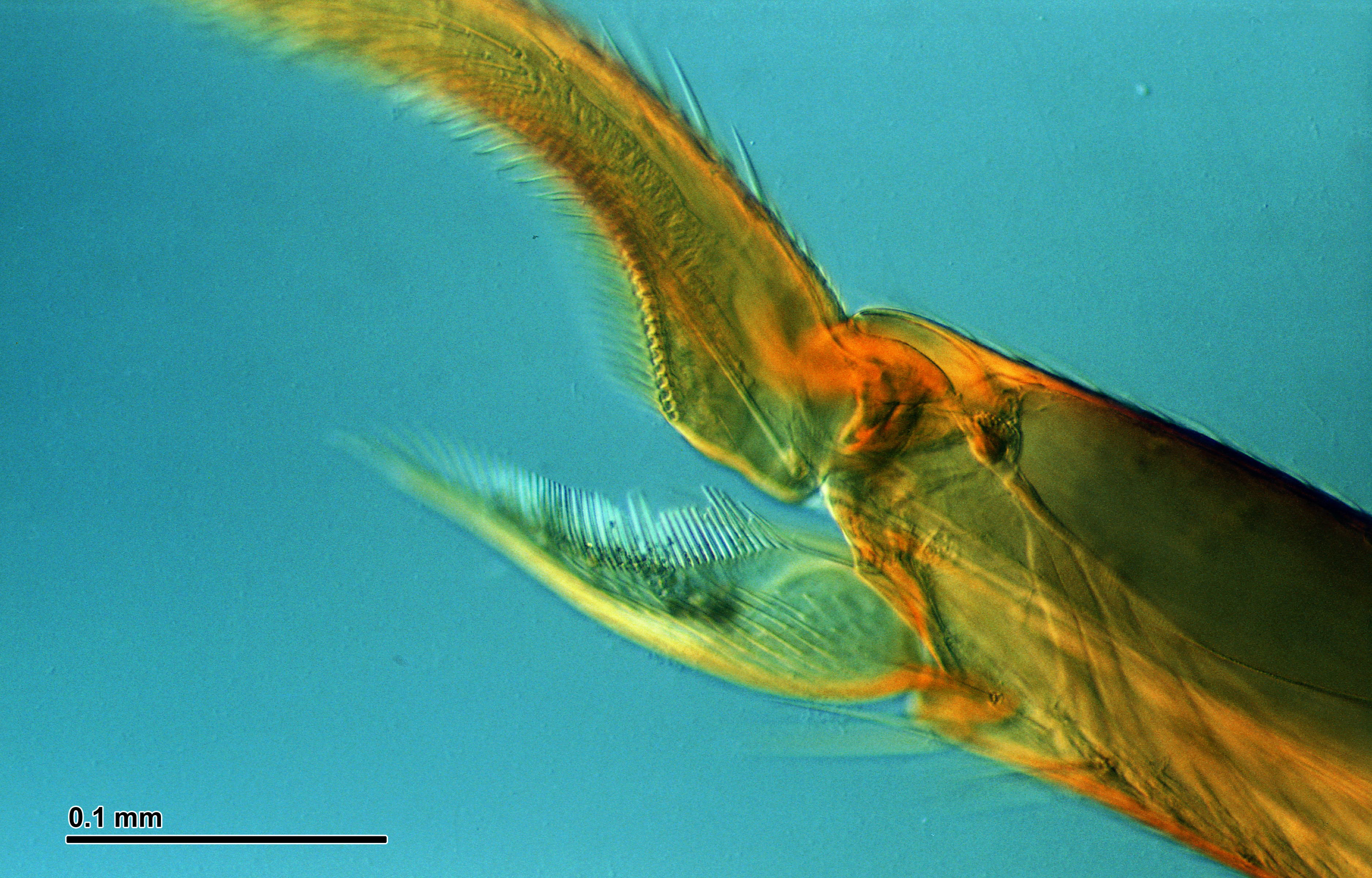 Ant leg: Ant leg (Formicidae). Optical microscopy technique: Differential interference contrast (Nomarski). Magnification: 600x (for picture width 26 cm ~ A4 format).